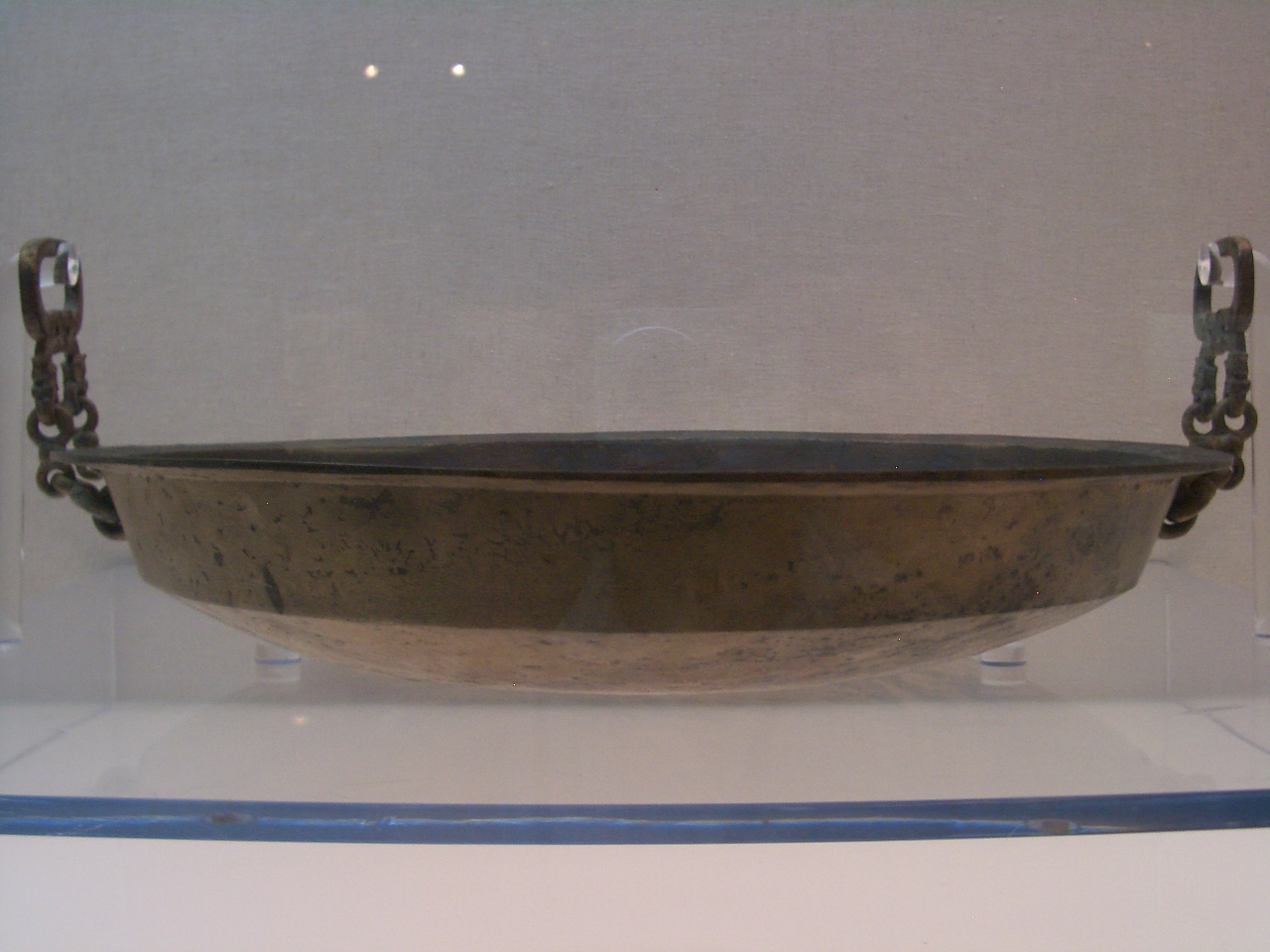 A bronze pan vessel with chain handles. Warring States period. From Baoshan Tomb 2, Jingmen, Hubei Province